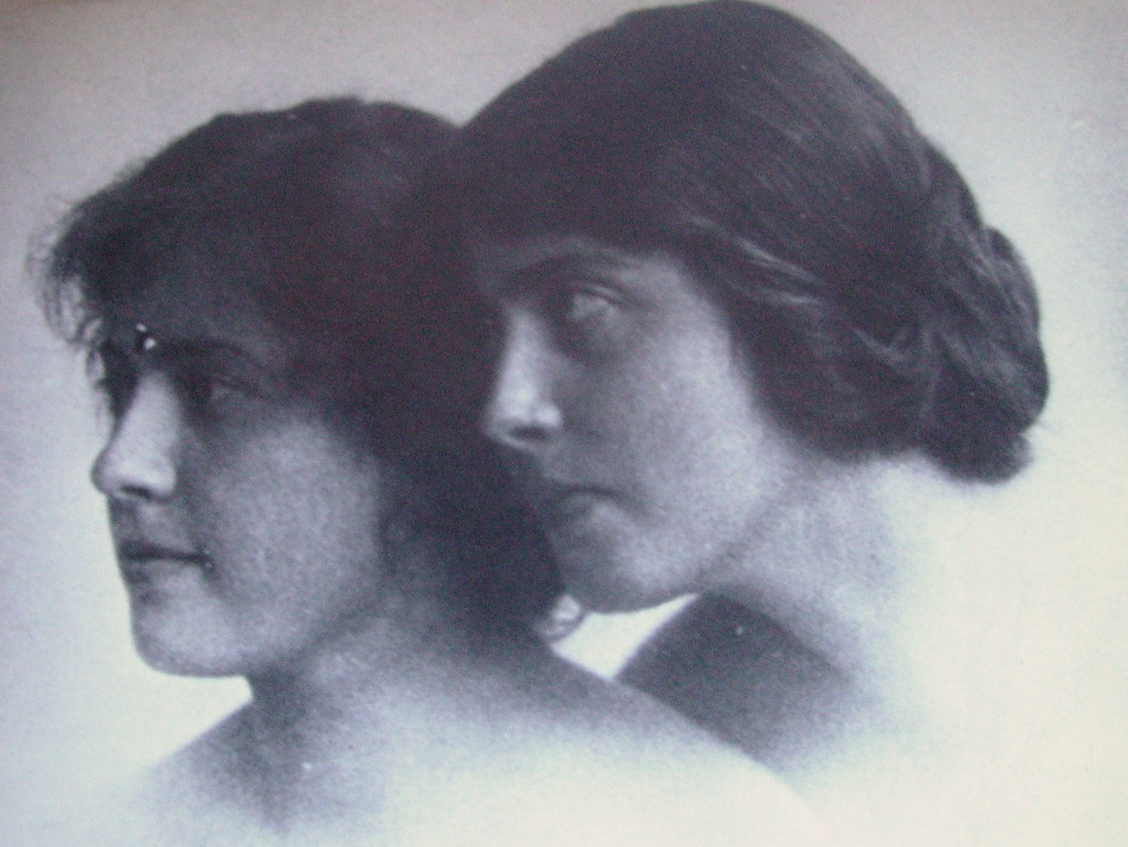 Photo of Carin (right) and her youngest sister Lily Fock, Swedish women. Carin was the first wife of Hermann Göring.